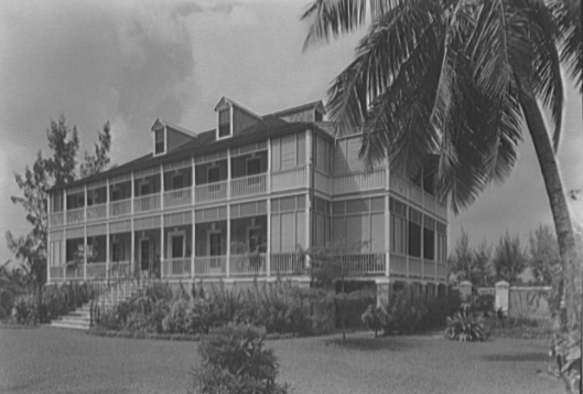 Arthur S. Vernay, residence in Los Cayos, Nassau, Bahamas. East facade, 10 a.m. Gottscho-Schleisner Collection (Library of Congress)